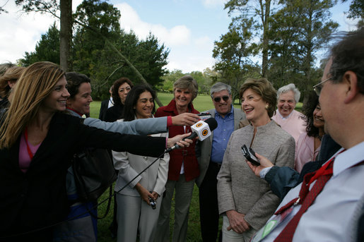 Mrs. Laura Bush smiles as she talks with the media after lunching Friday, Nov. 4, 2005, at Estancia Santa Isabel, an Argentine ranch located not far from Mar del Plata, where President George W. Bush was participating in the 2005 Summit of the Americas